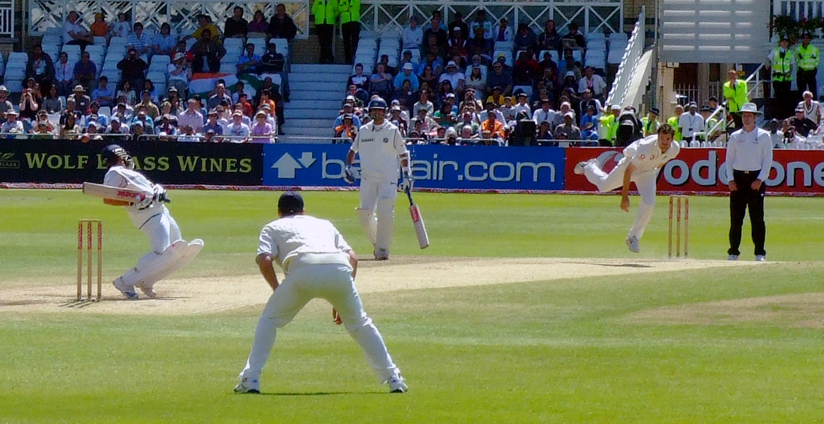 5th Day, 2nd Test: England v India at Trent Bridge, Nottingham, 31st July 2007 James Anderson troubles the Indian batsman.